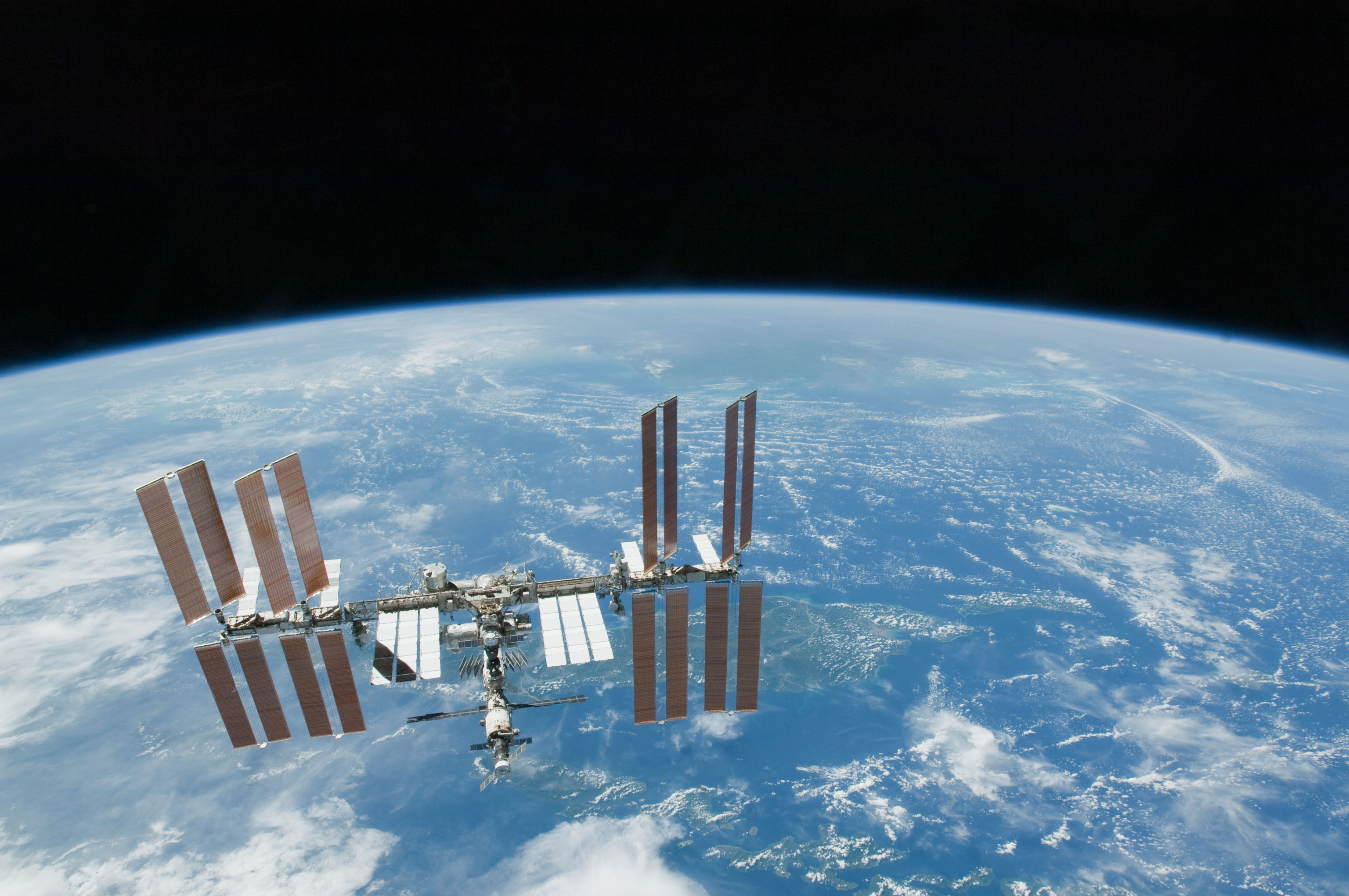 Backdropped by Earth's horizon and the blackness of space, the International Space Station is featured in this image photographed by an STS-130 crew member on space shuttle Endeavour after the station and shuttle began their post-undocking relative separation. Undocking of the two spacecraft occurred at 7:54 p.m. (EST) on Feb. 19, 2010.